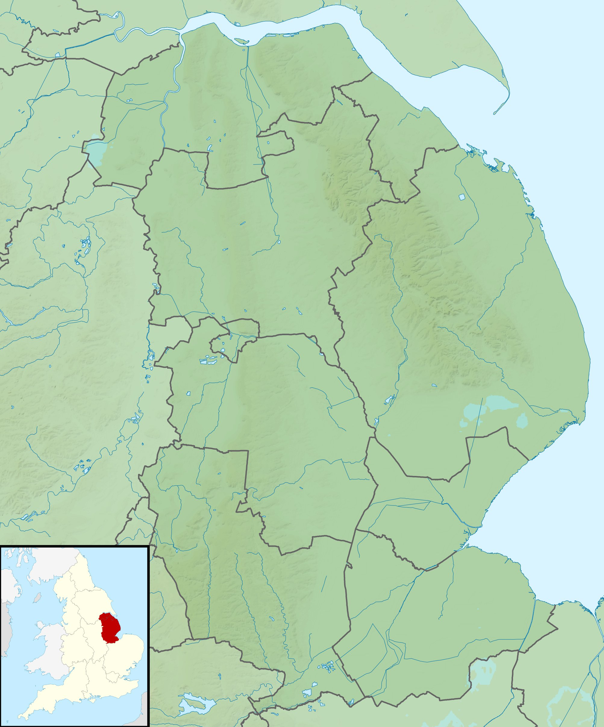 Relief map of Lincolnshire, UK. Equirectangular map projection on WGS 84 datum, with N/S stretched 165% Geographic limits: West: 1.16W East: 0.39E North: 53.75N South: 52.62N